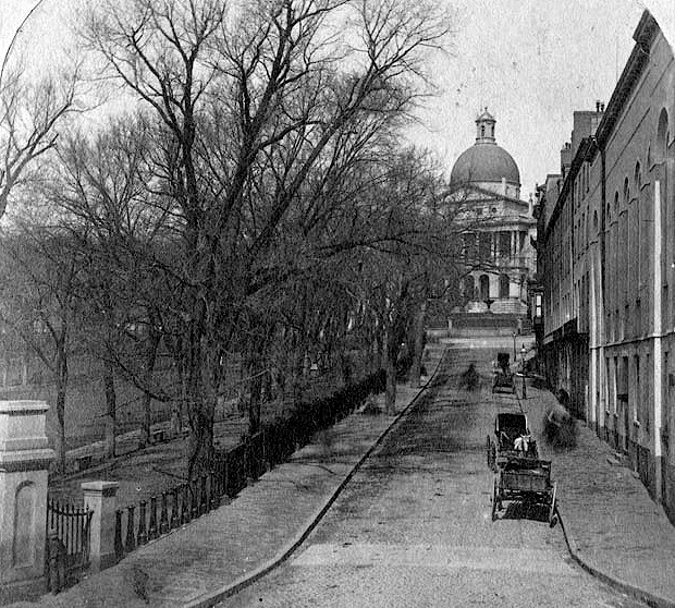 {Accession No.: 06_11_000579 Title: Park Street Local Subject: Street Views Subject: Boston (Mass.) Format: Derived from sterograph BPL Department: Print |Source=Park Street |Date=2007-10-29 15:34 |Author=BPL